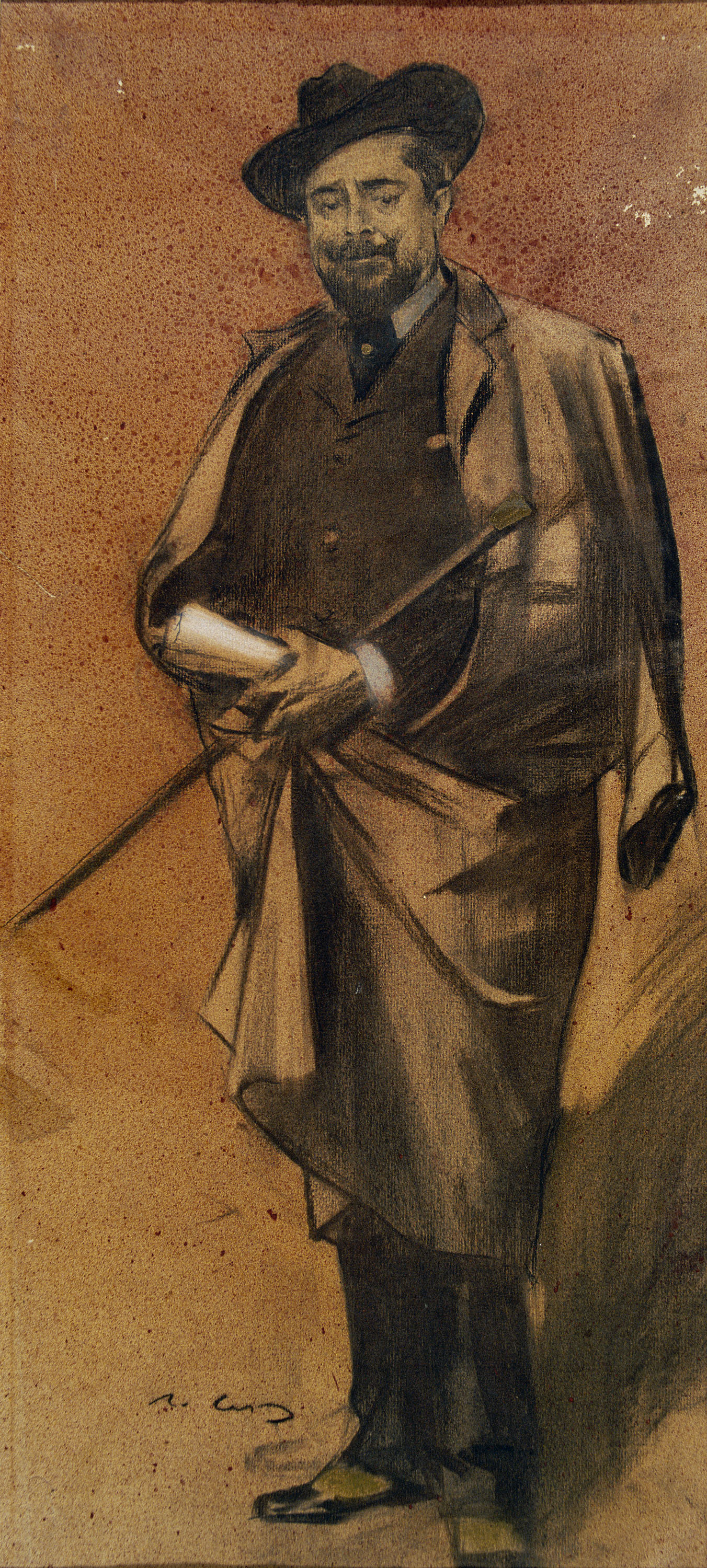 Portrait by Ramon Casas conserved at MNAC in Barcelona.